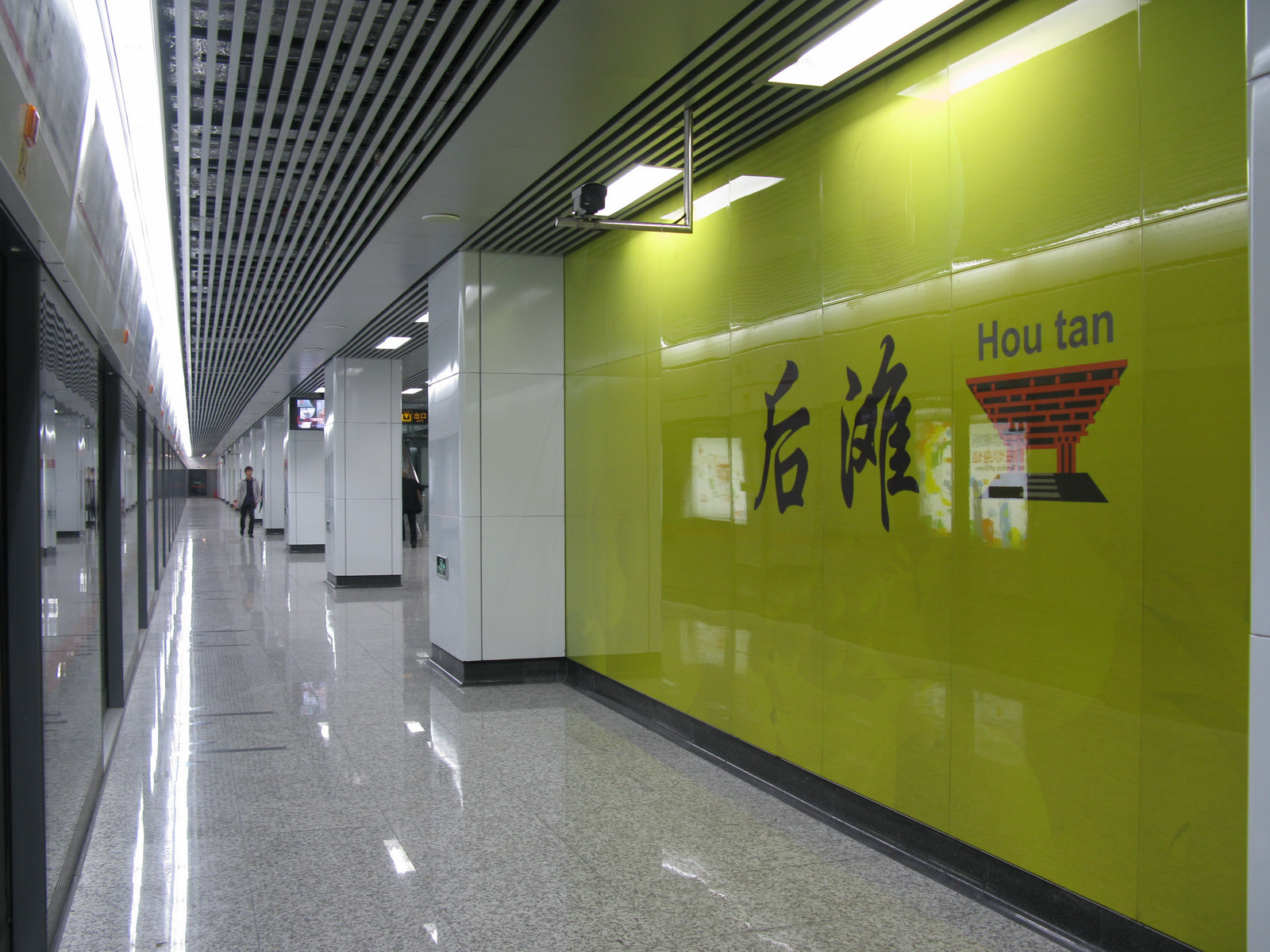 Line 7 Platform of Houtan Station, Shanghai Metro